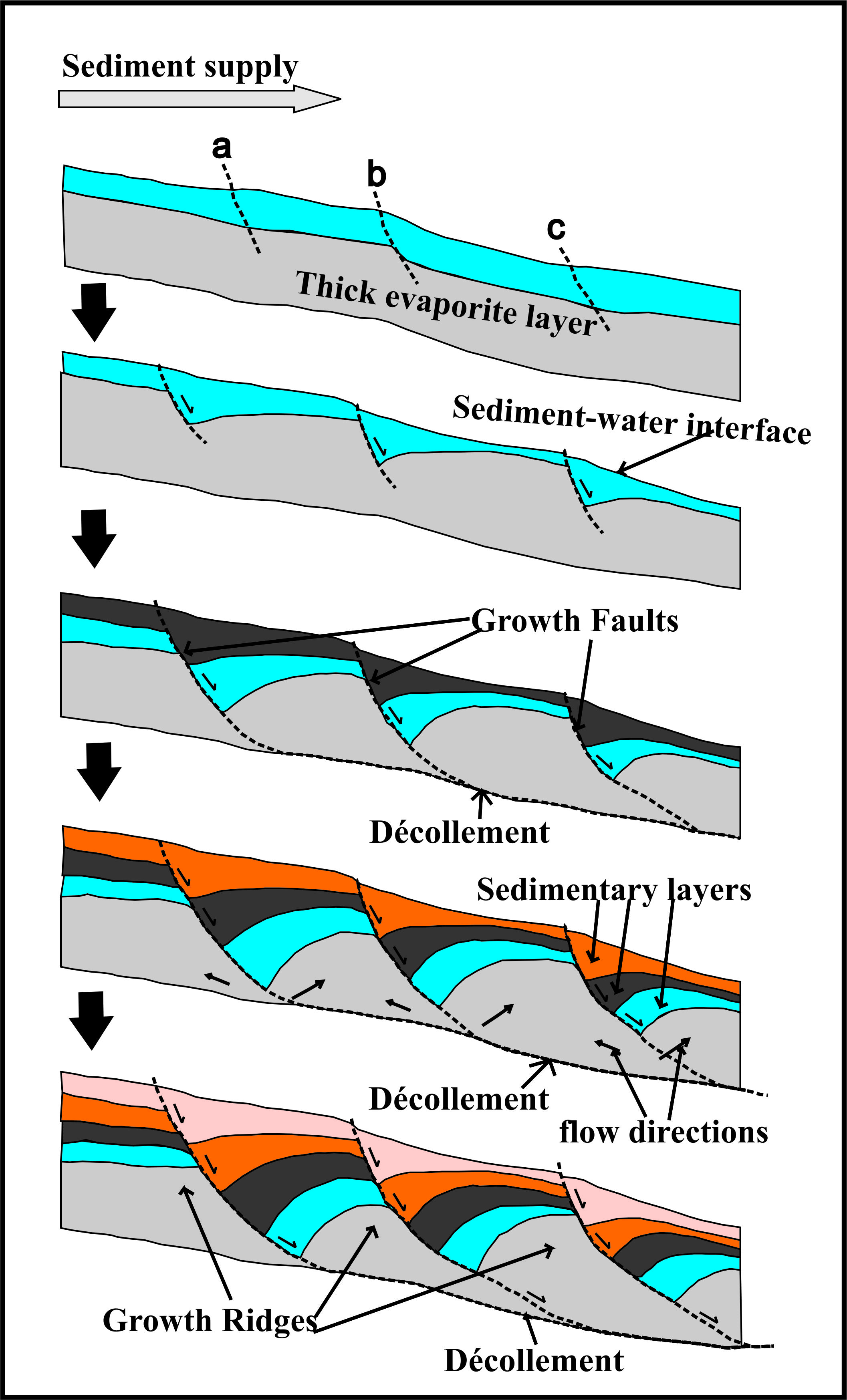 Fig 2 Emadfinal thin boundary2